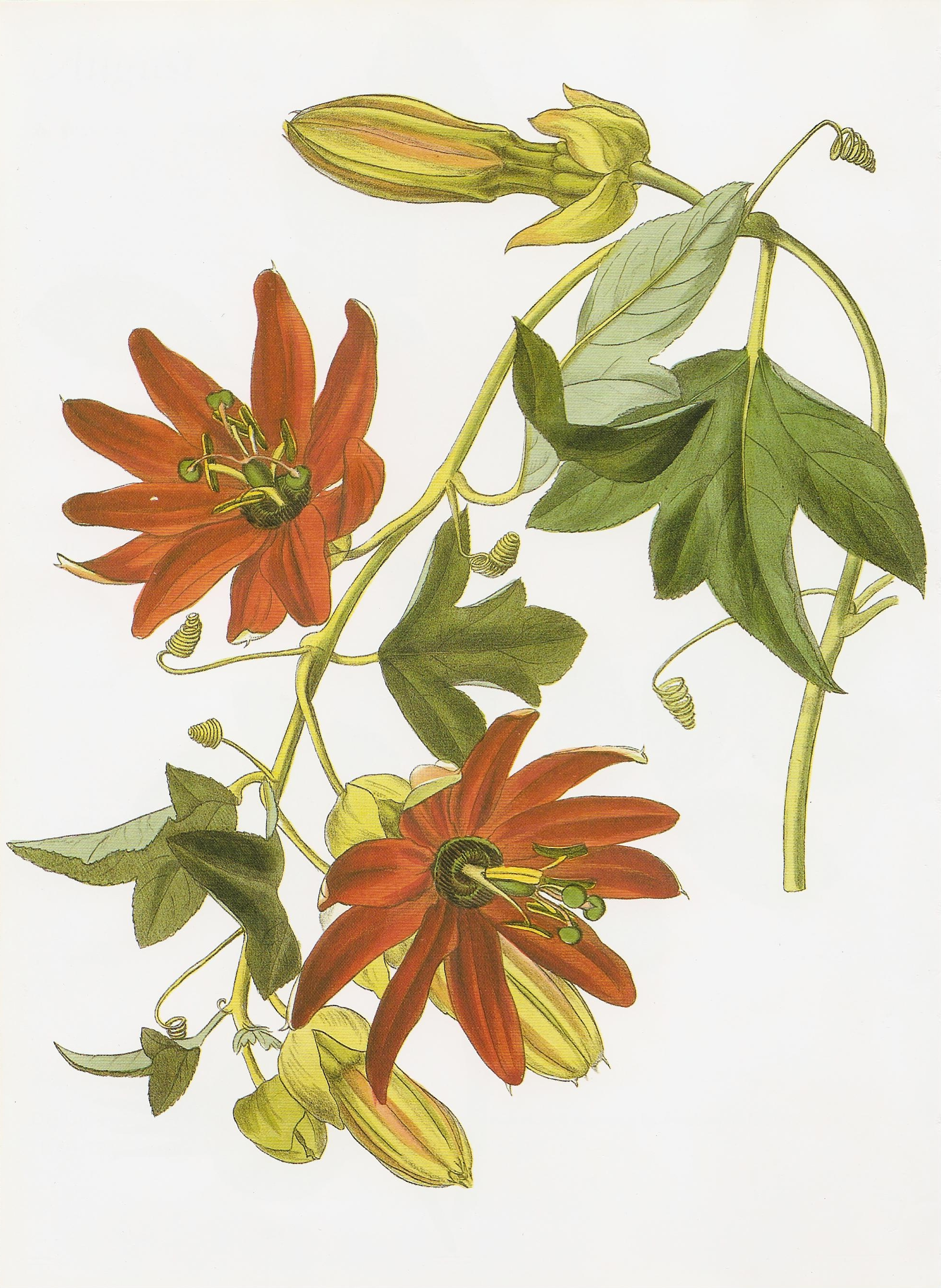 Tasconia (now Passiflora) manicata, a hand-retouched chromolithograph by Louis-Aristide-Léon Constans (fl. 1830s-1860s), plate 26 from the first volume of Paxton's Flower Garden (1850-1851) by John Lindley and Jospeh Paxton